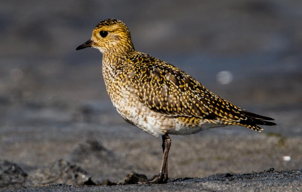 A European Golden Plover in Iceland.